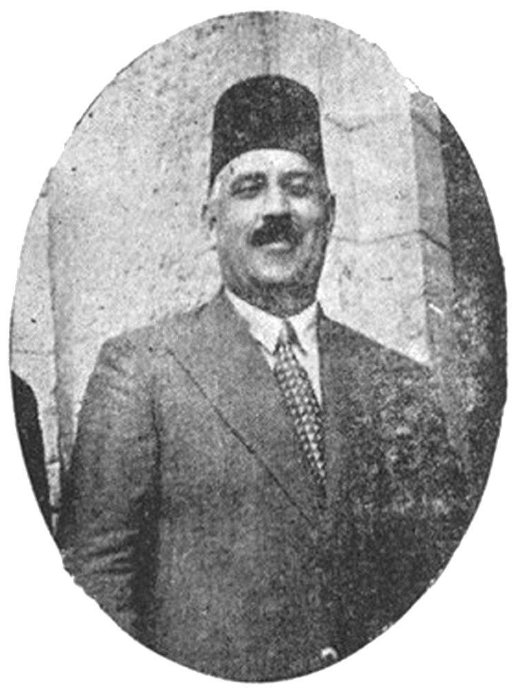 Photograph of Nasib al-Bakri